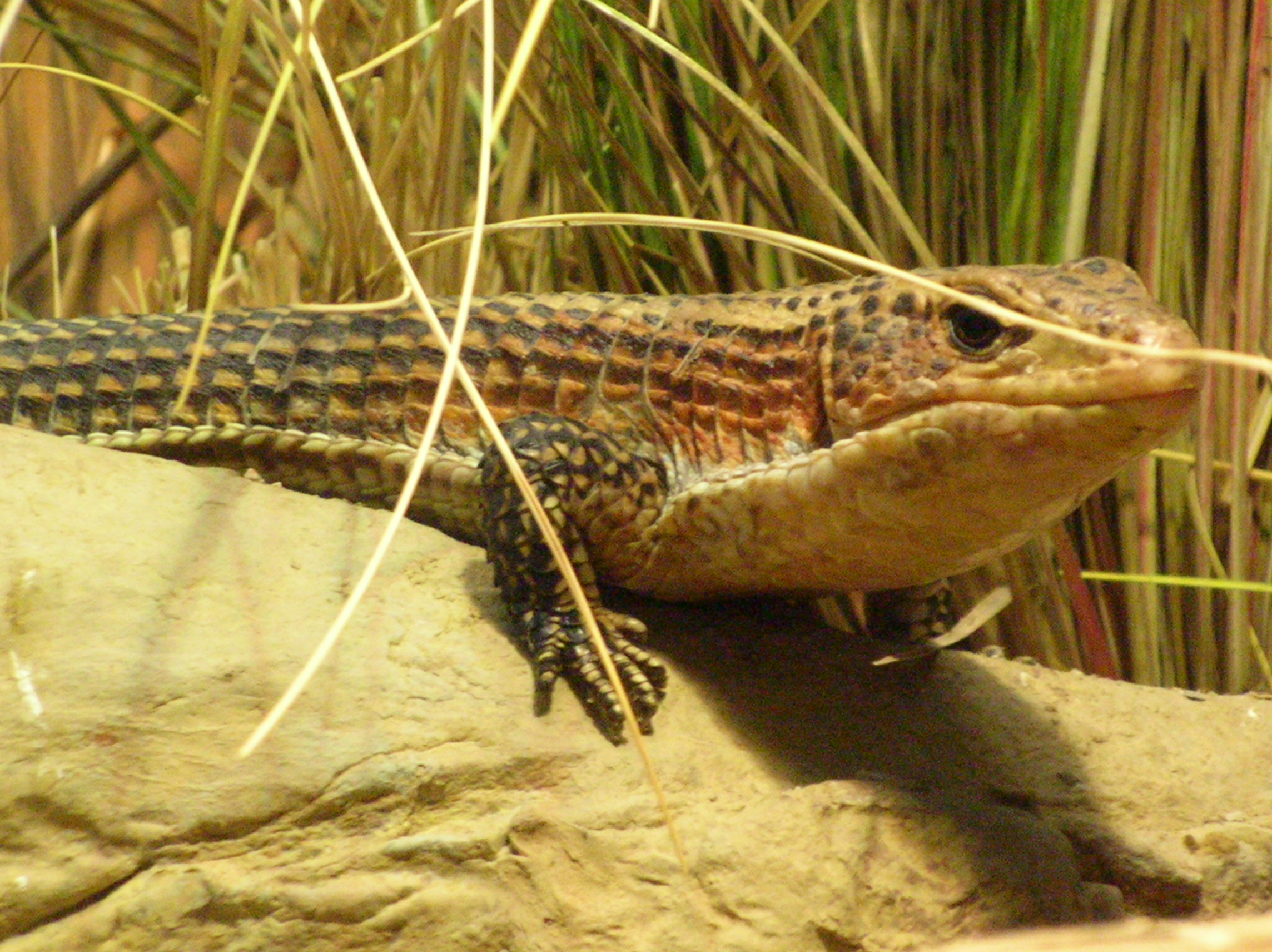 A Great Plated Lizard (Gerrhosaurus major) in the Kimball Natural History Museum at the California Academy of Sciences in San Francisco.